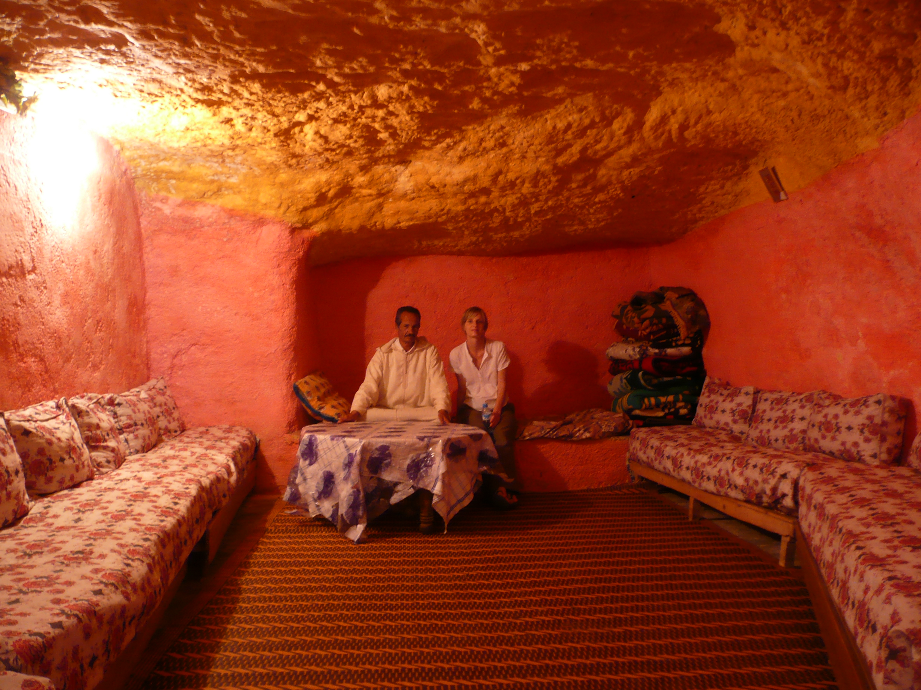 Mohammed's cave house, Bhalil